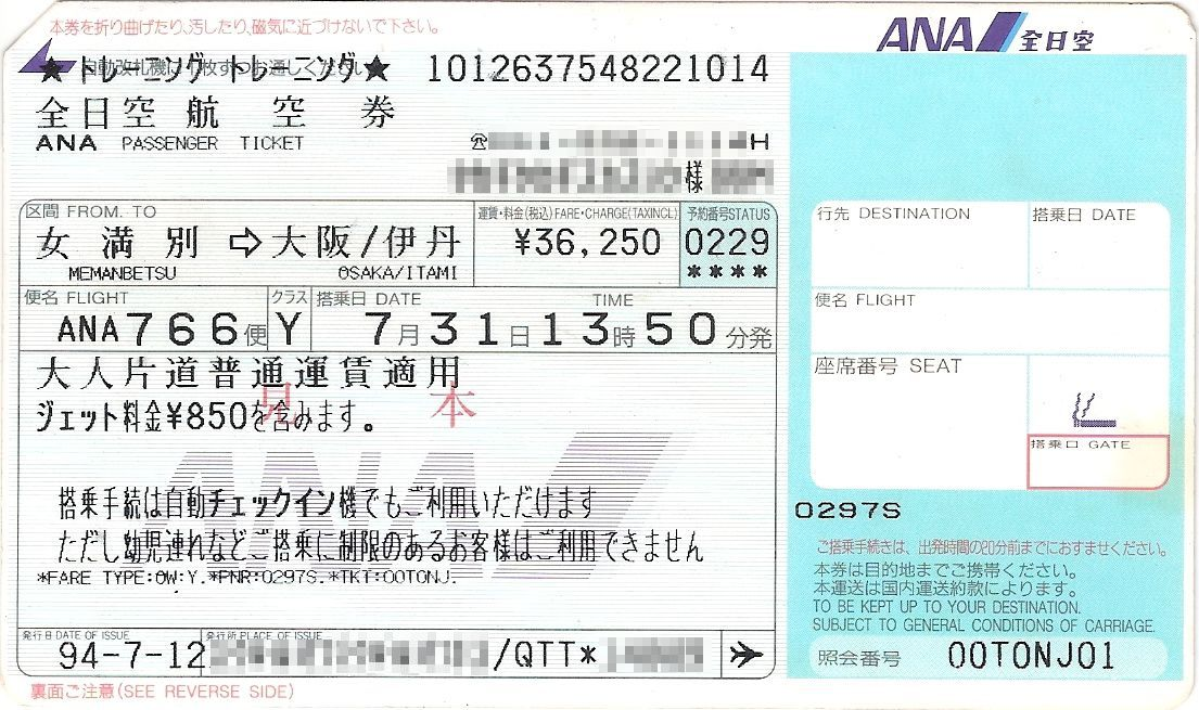 Air Ticket of All Nippon Airways